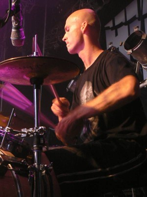 Decapitated, HunterFest, Szczytno, Plaża Miejska, 13.08.2006